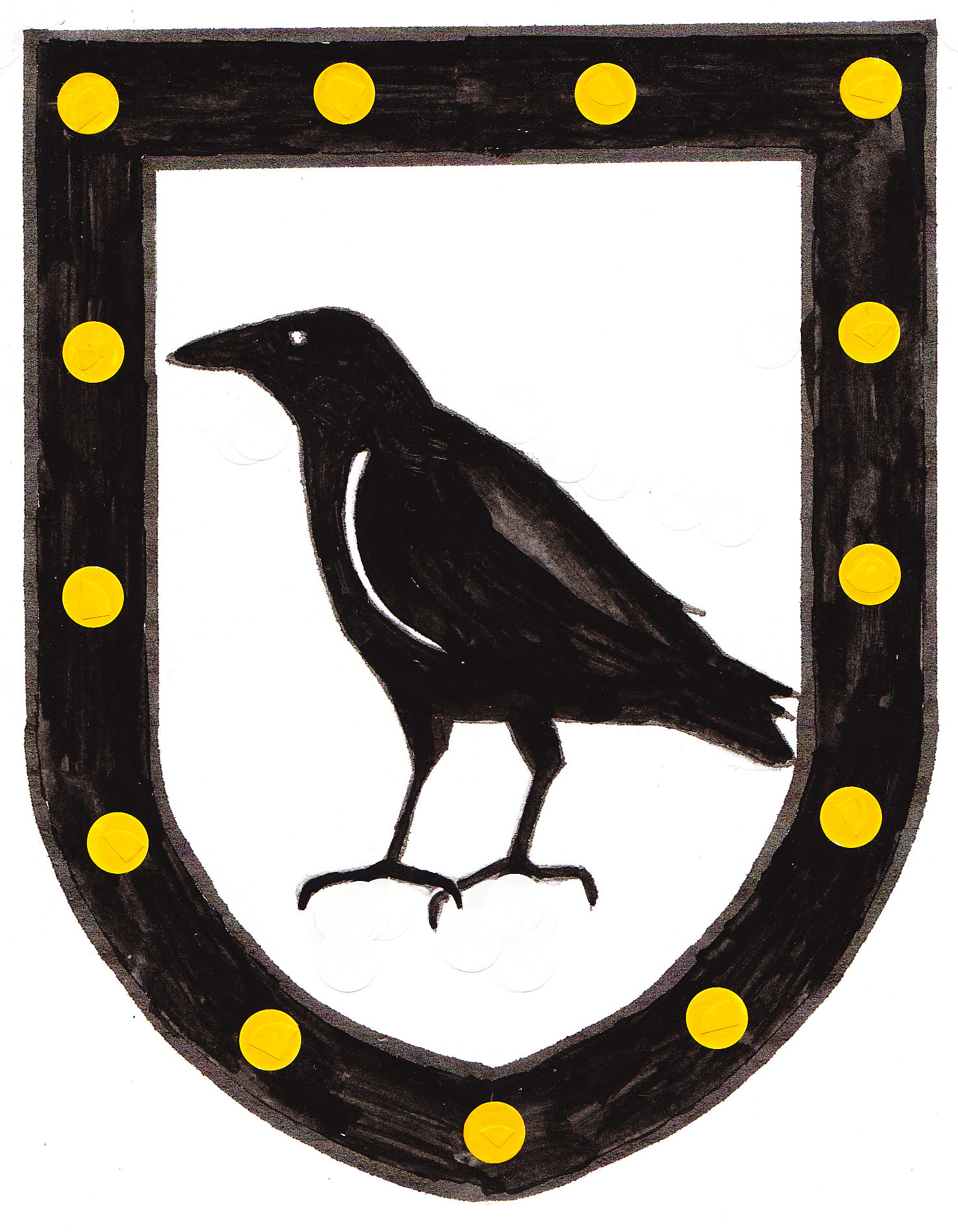 BL Add.MS 45,131 f.54. Arms of Corbet of Siston, bottom row, 2nd from left, 2nd & 3rd quarters Armourials of Corbet of Siston, Glos & Hope, Salop. As quartered by Hugh Denys depicted in BL Add.MS 45,131 f.54 (dated 1509) & per Burke's Armorials 1884, p.229: "Argent, a raven proper within a bordure sable bezantee". The Corbet raven is said (by Augusta E. Corbet The Family of Corbet, its Life & Times London, 1918) to be the ancient Viking standard borne by the Norman Roger "Corbeau" (i.e. Raven) of Pays de Caux, Normandy, who fought at Hastings with William the Conqueror, and built Caus Castle, Salop. It thus dates from before the beginnings of armourial bearings.)